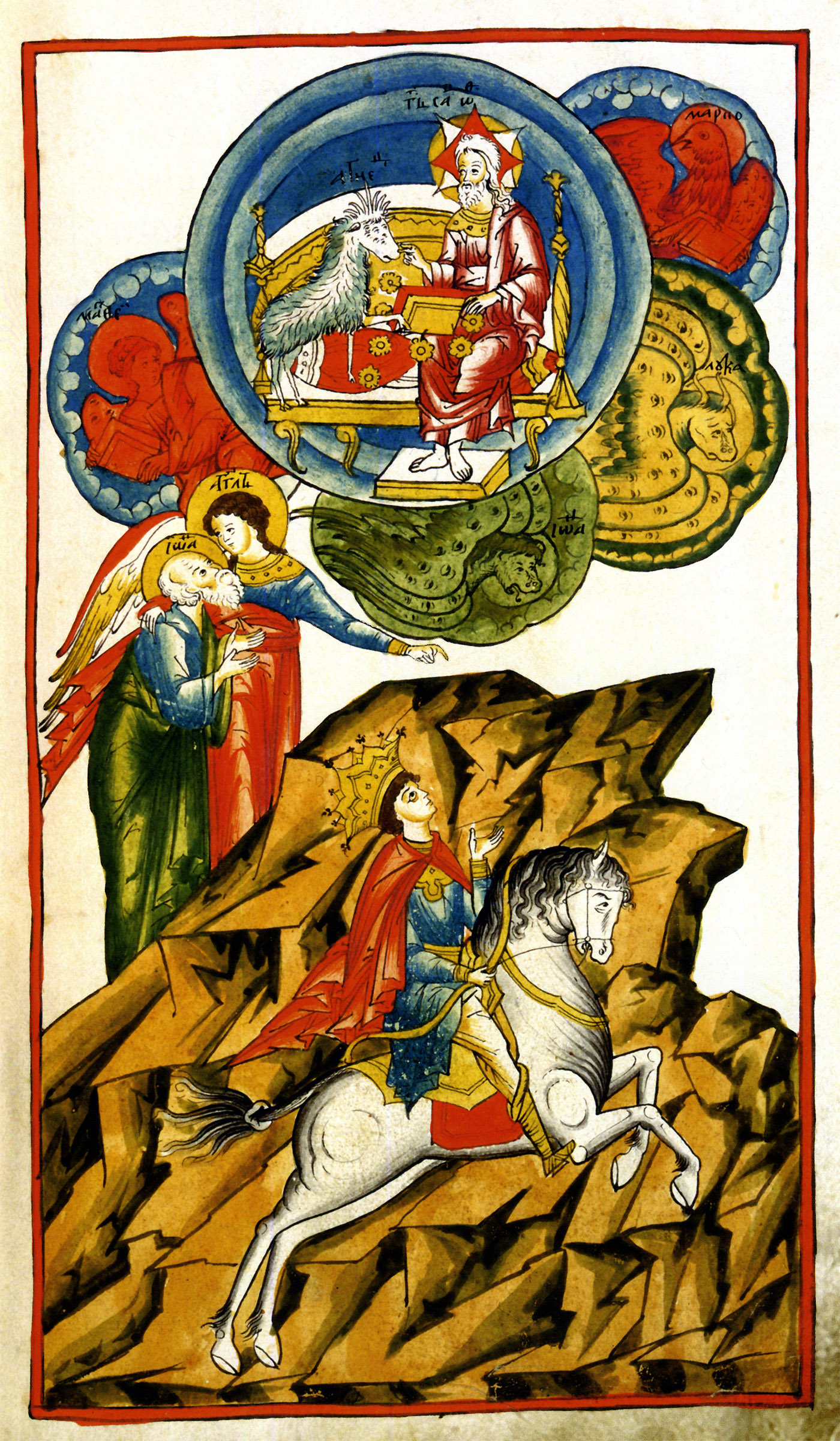 Lifting the First Seal of Apocalypse and the White Rider of war. Illuminated page (not an icon!) from the 17th century Tolkovy Apocalypse. Moscow, first half of the 17th century. Note that the four six-winged Beasts surrounding the divine Throne (Revelation 4:5-9: ... round about the throne, were four beasts full of eyes before and behind ... ) are clearly labelled as the Four Evangelists (John, Luke, Mathew and Mark); John of Patmos is presented as a person and Evangelist John as a spirit.